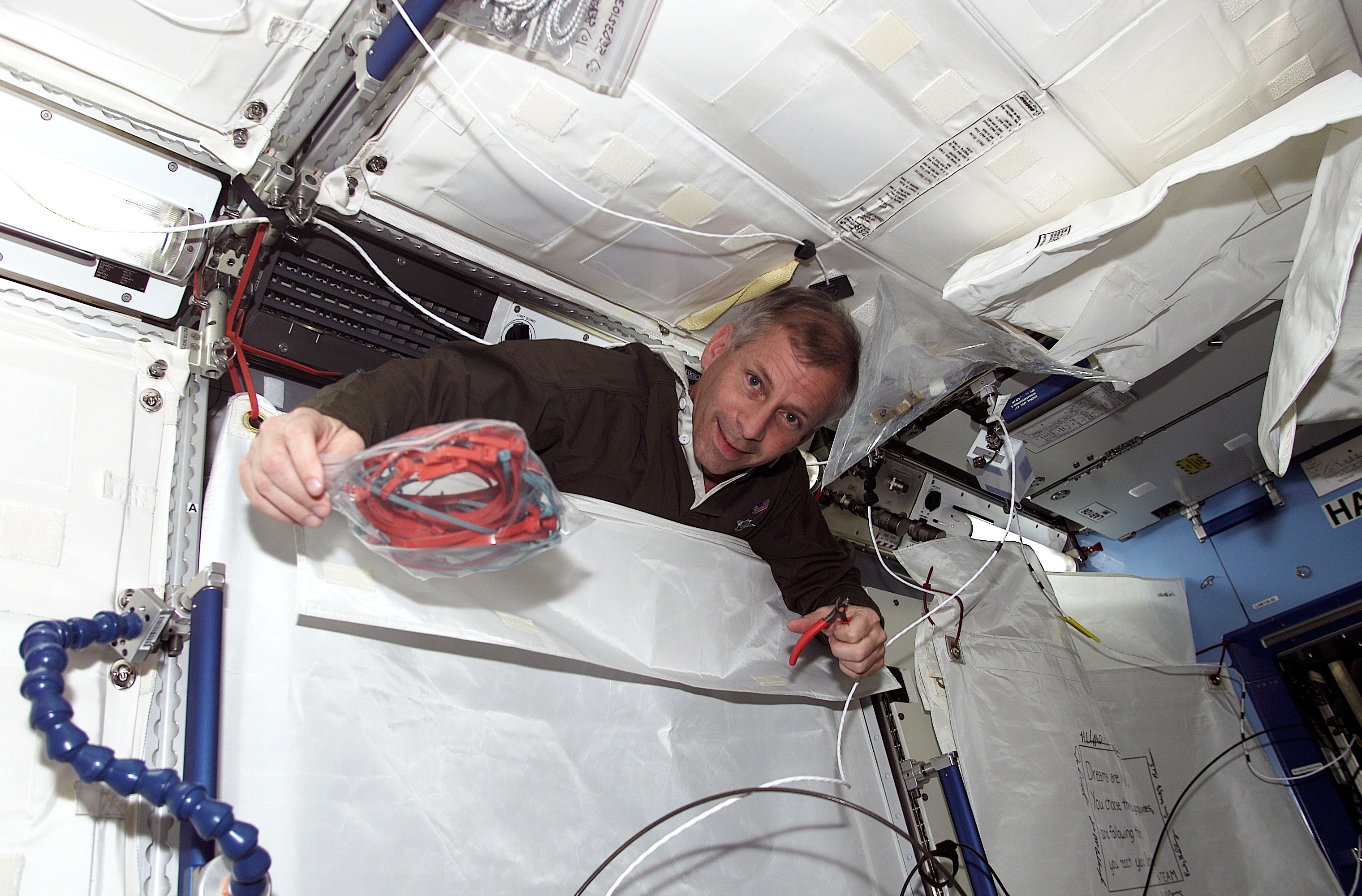 Astronaut Kenneth D. Cockrell, STS-98 commander, emerges from behind the curtain covering a rack space in the newly attached Destiny laboratory onboard the International Space Station (ISS).